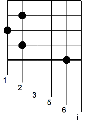 A short melody in slendro notated using the Yogyakarta method or 'chequered notation'. Numbers added along the bottom for reference.